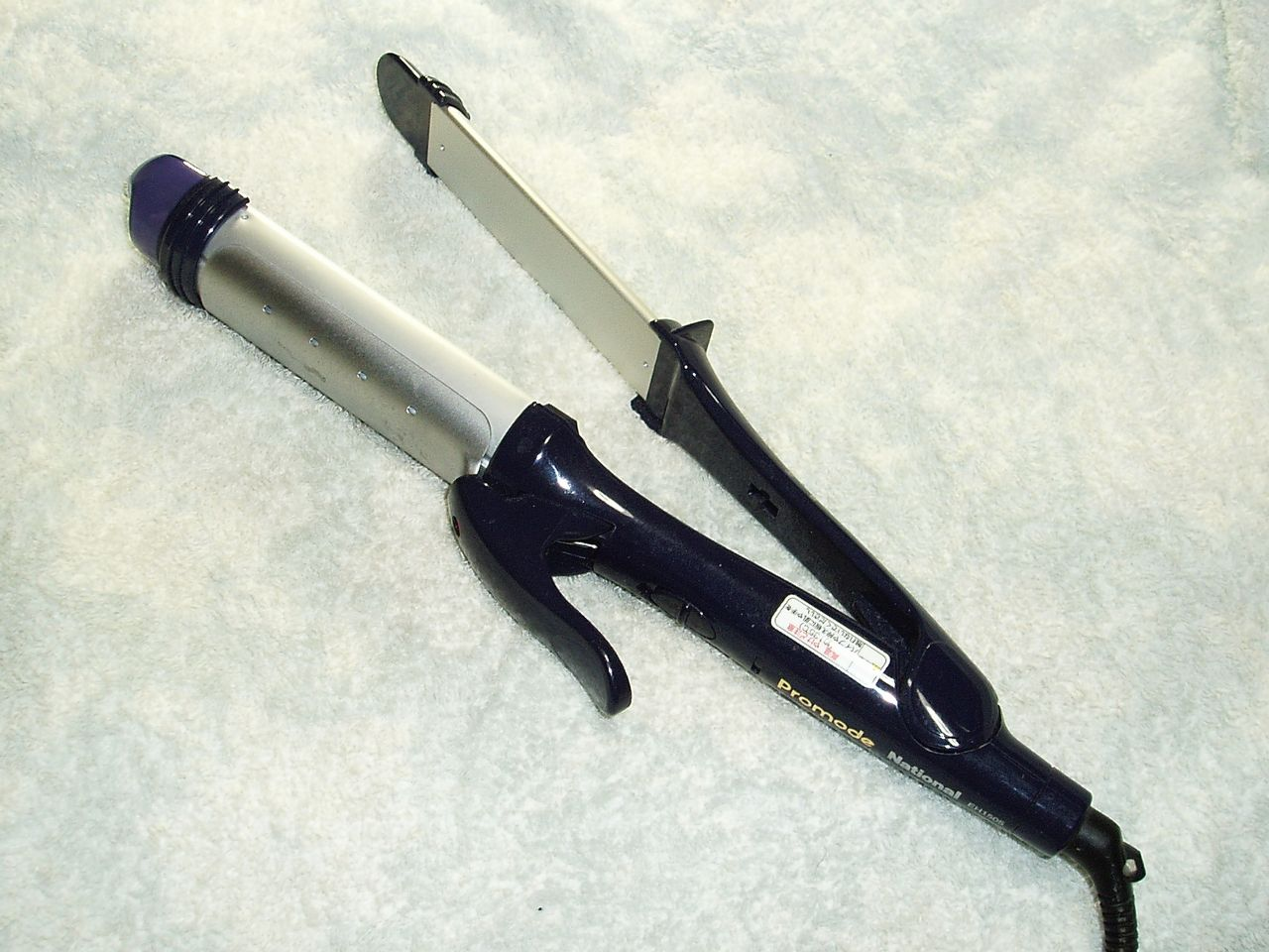 Hair Iron